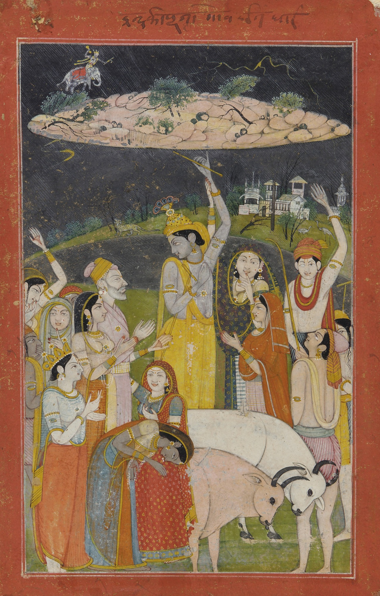 Krishna Holding Mount Govardhan ca. 1790 Color on paper H: 25.3 W: 17.1 cm Attributed to Mola Ram (1760-1833)